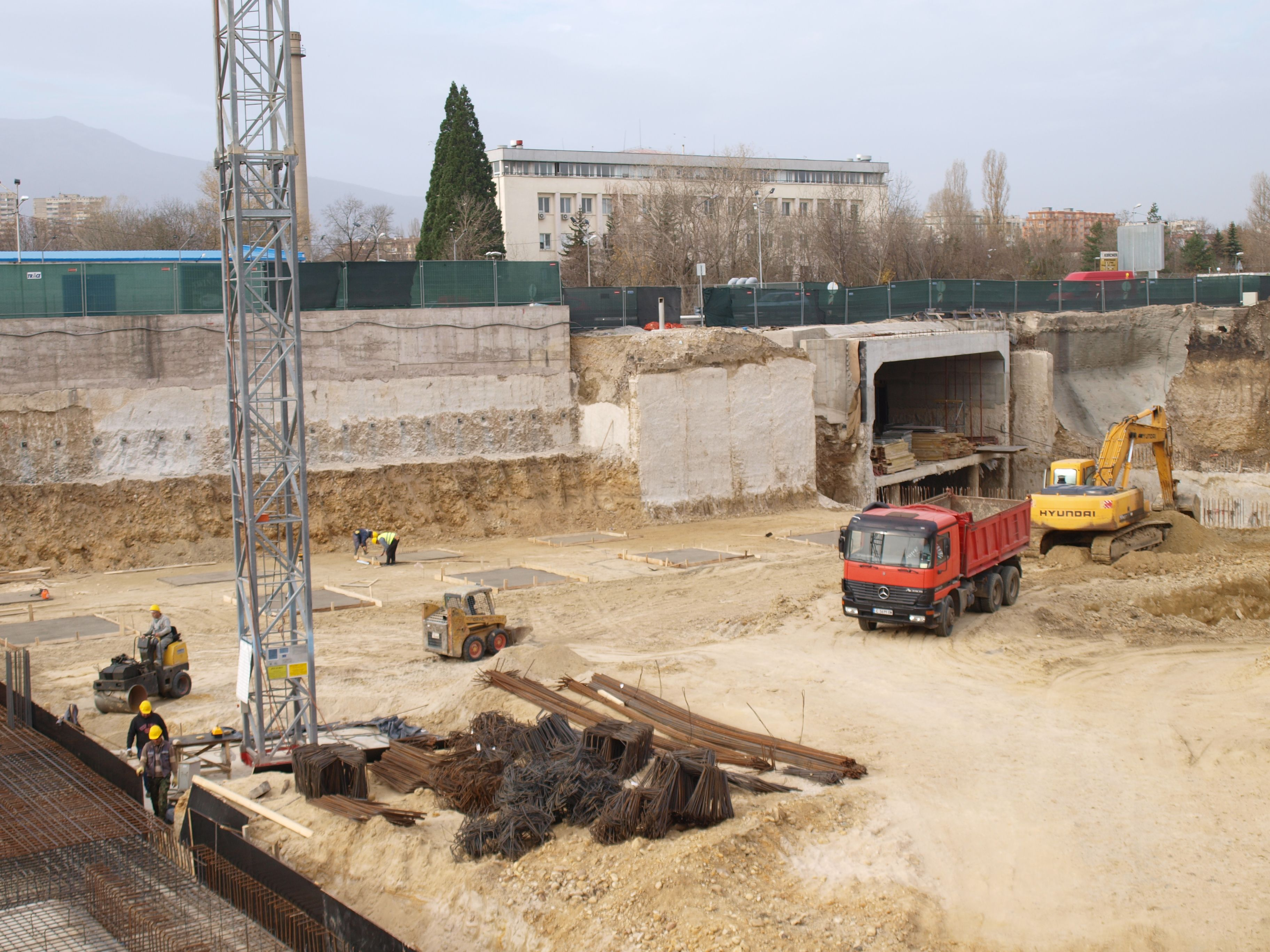 Sofia Metro under construction - Tsarigradsko Shose Blvd. at 11 Nov 2010.